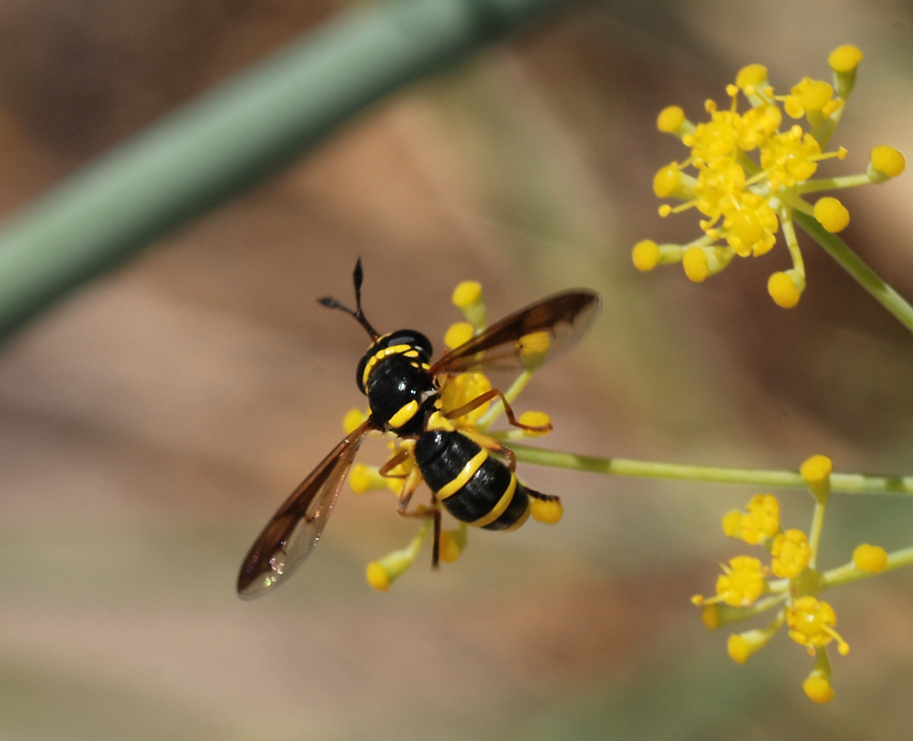 Wasp looking hoverfly (Ceriana vespiformis)